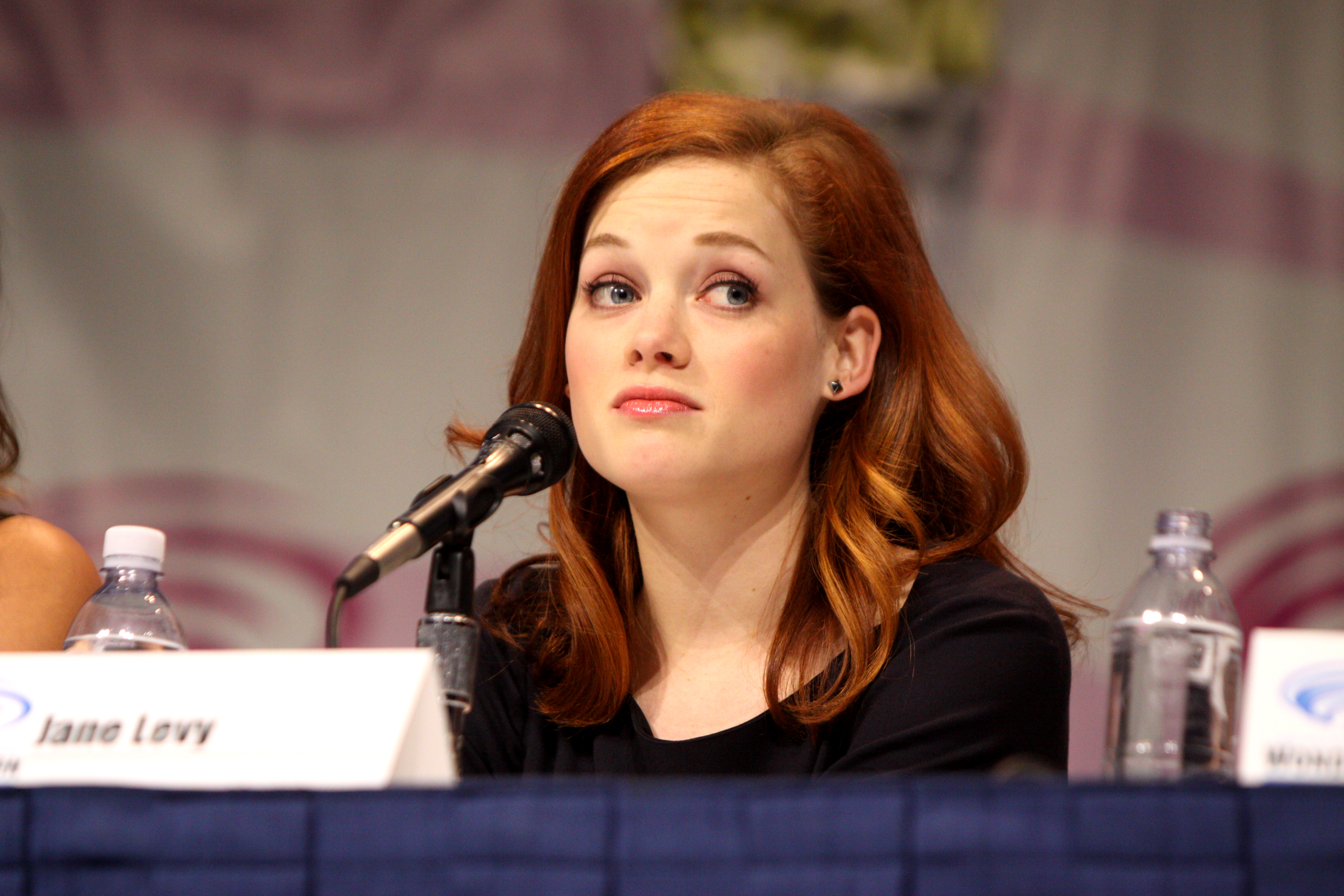 Jane Levy speaking at the 2013 WonderCon at the Anaheim Convention Center in Anaheim, California.